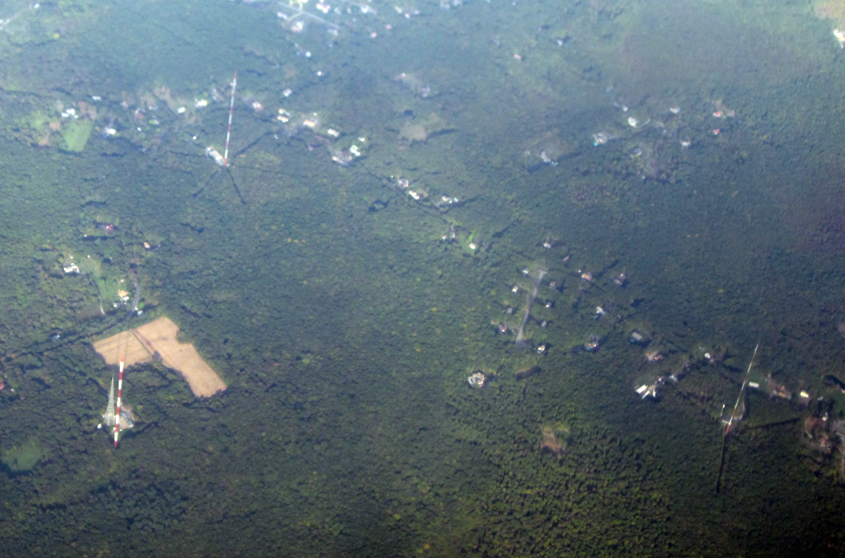 Hard to see, but here are the towers for Providence's TV stations. At the top is WNAC-TV's old tower, soon to be abandoned by the station. On the bottom left are WRIW, WJAR, WLNE and WSBE. On the right are WPRI and WNAC. WPRI is on Channel 13 and WNAC is moving to Channel 12.They'll share an antenna there.